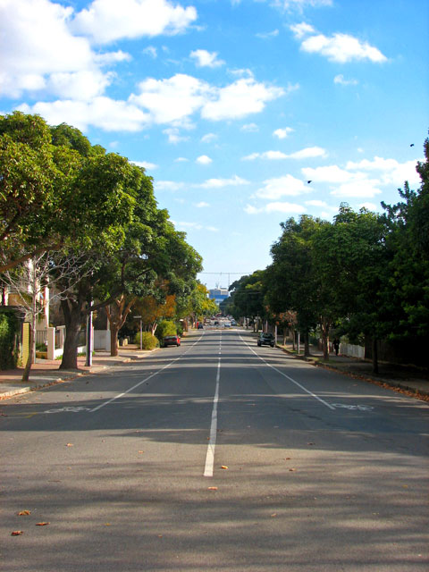 William St in Norwood looking towards Adelaide.